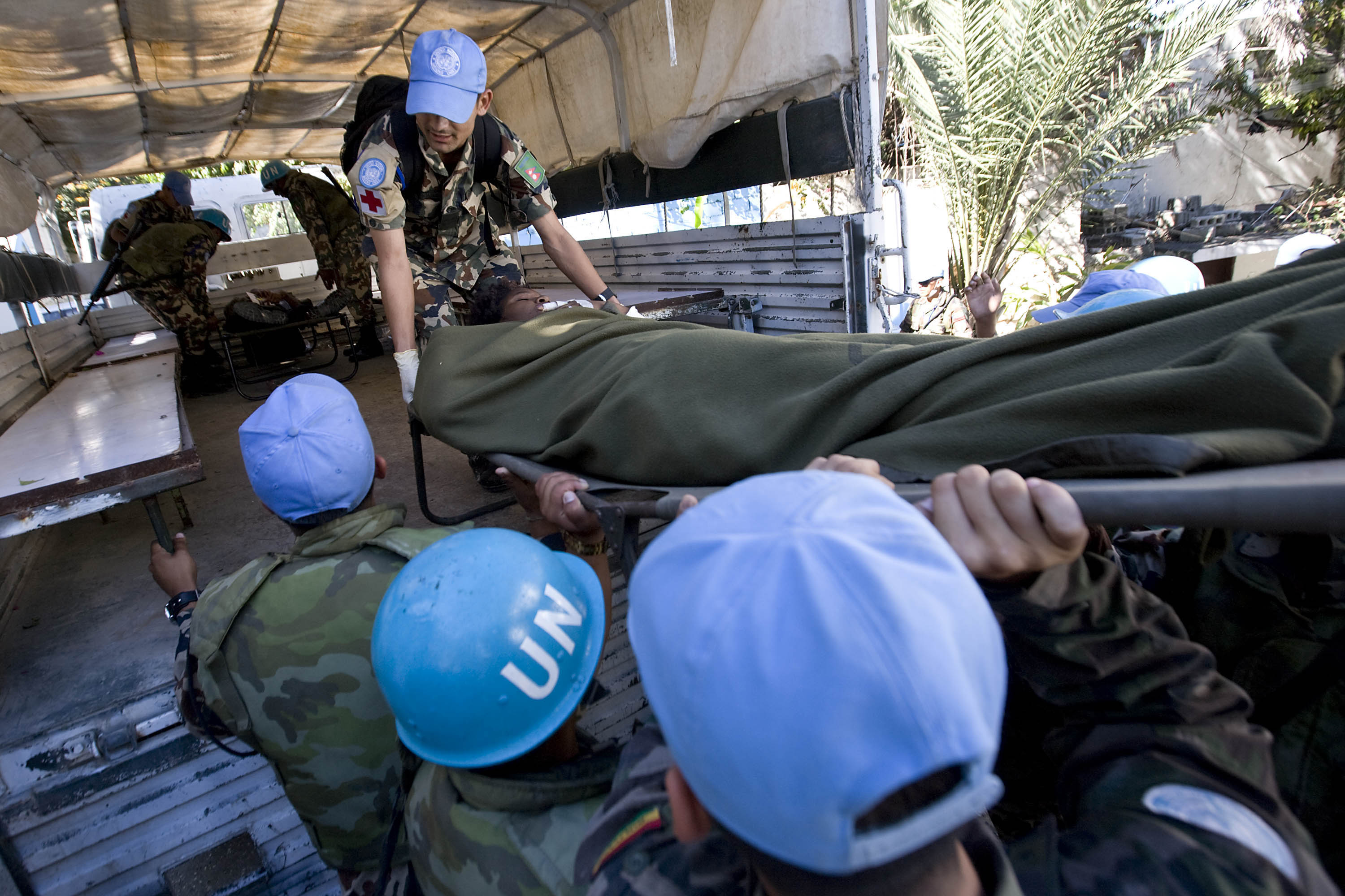 MINUSTAH peacekeepers load an ijured person into a truck. Haiti was hit by an earthquake measuring 7 plus on the Richter scale that rocked the capital Port au Prince just before 5 pm yesterday, January 12, 2010.